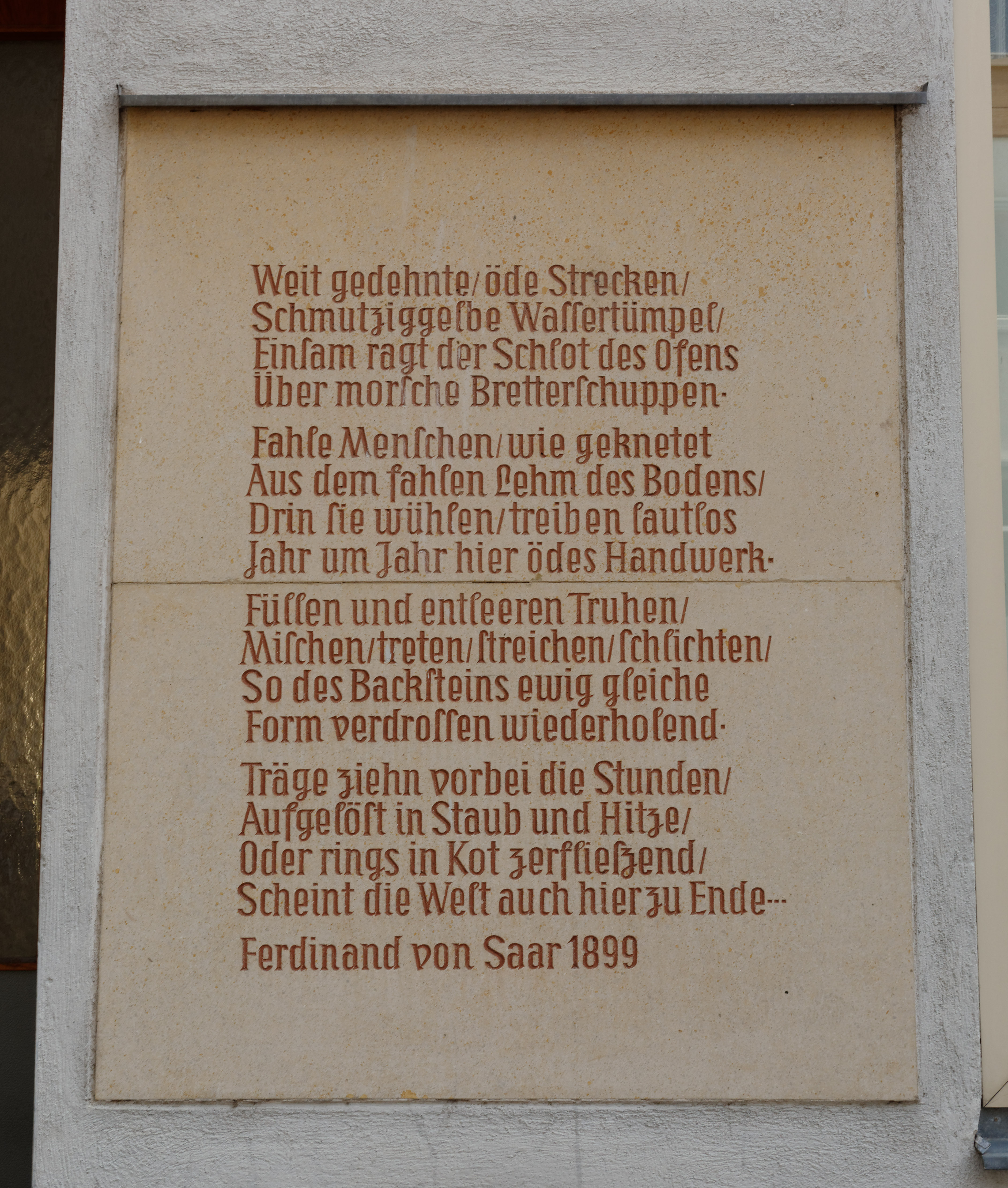 Poem from Ferdinand von Saar at the front of Ziegelofengasse 10 at Margareten, Vienna, Austria